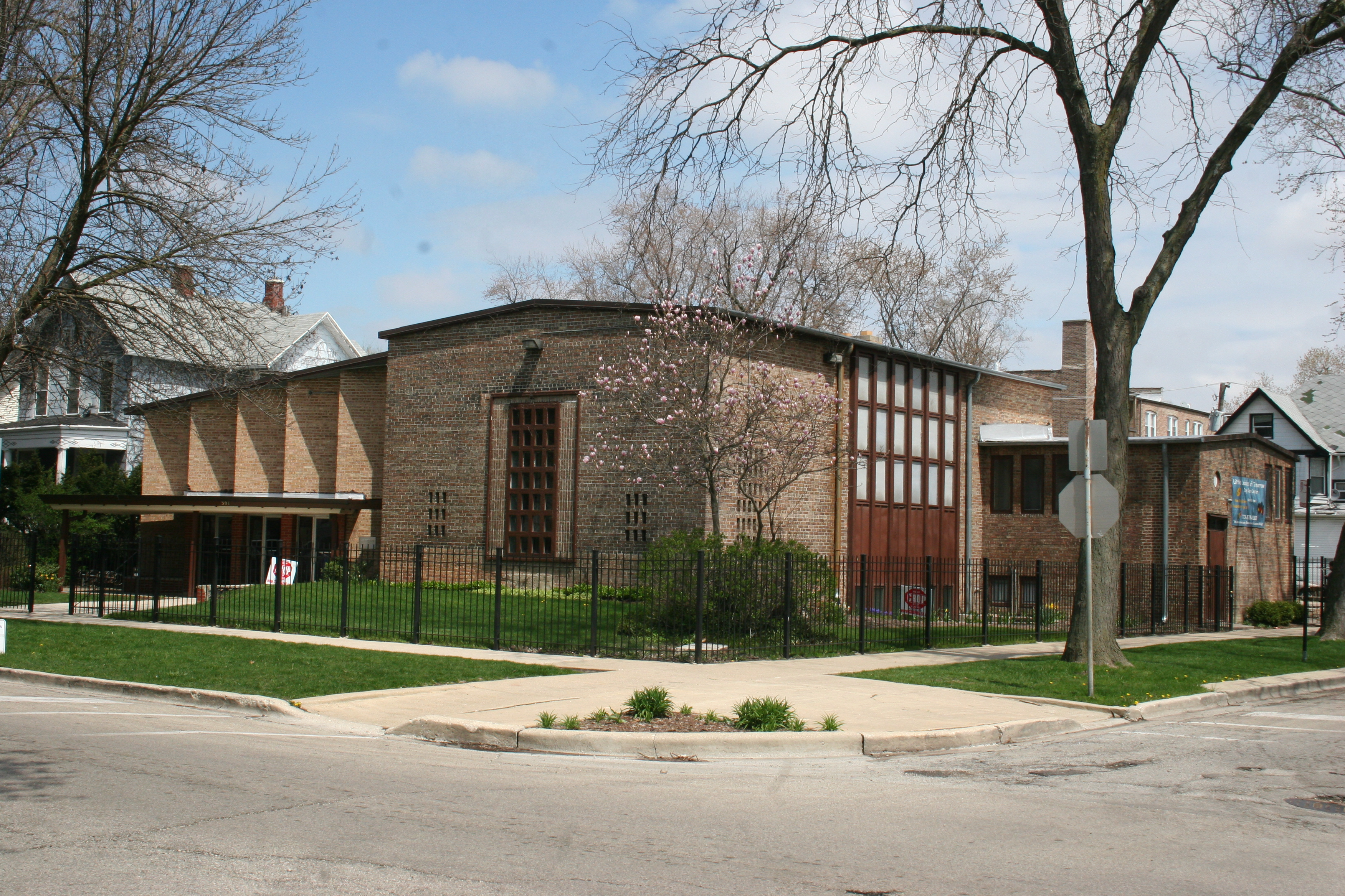 Third Unitarian Church in South Austin, Chicago, IL